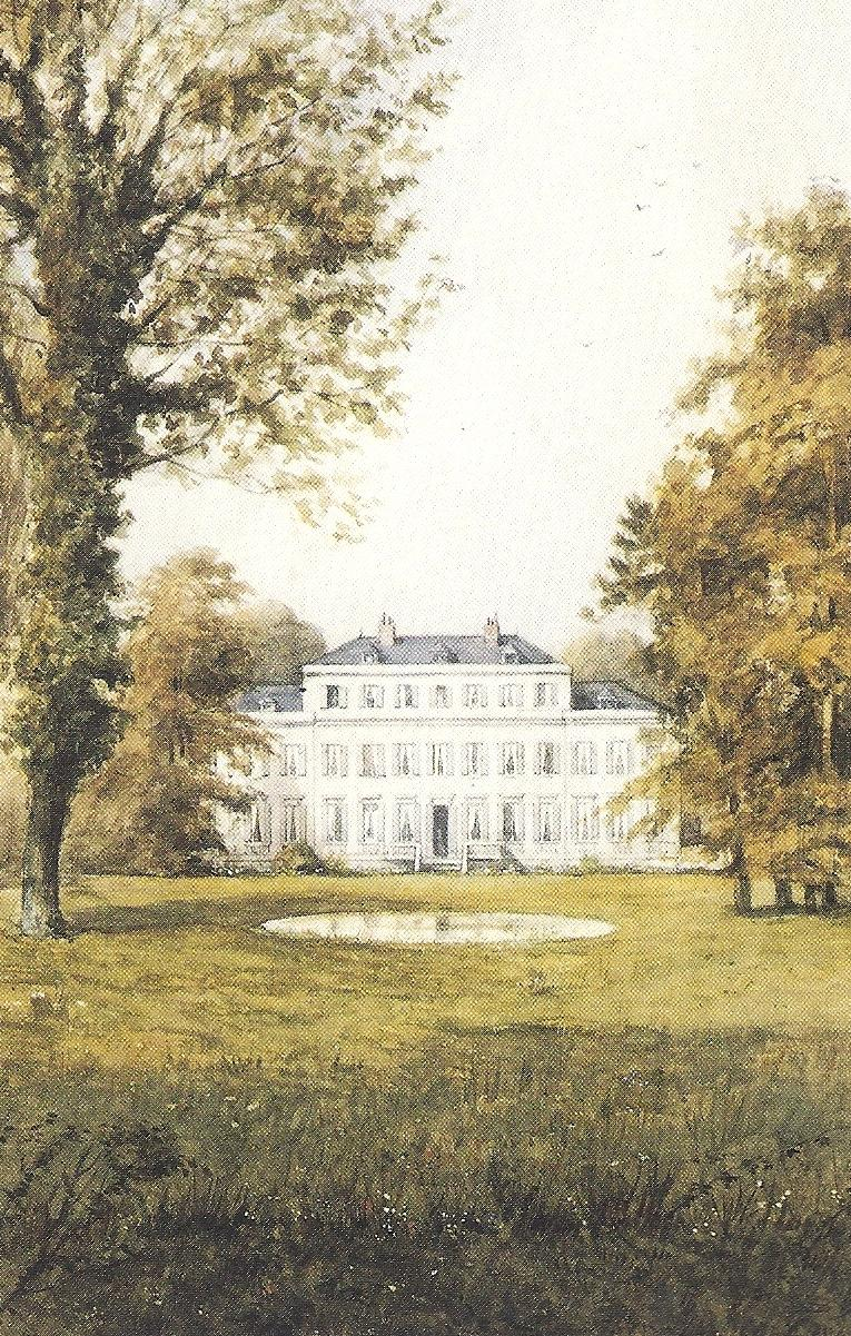 Château de Brévannes, France, Sarchi's own.